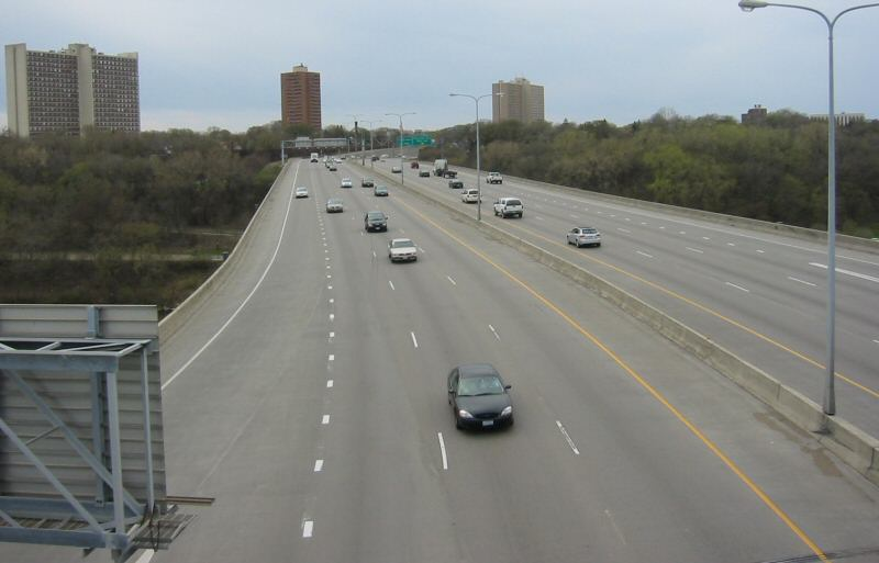 A look at the Dartmouth Bridge on Interstate 94 looking west toward downtown Minneapolis, Minnesota.